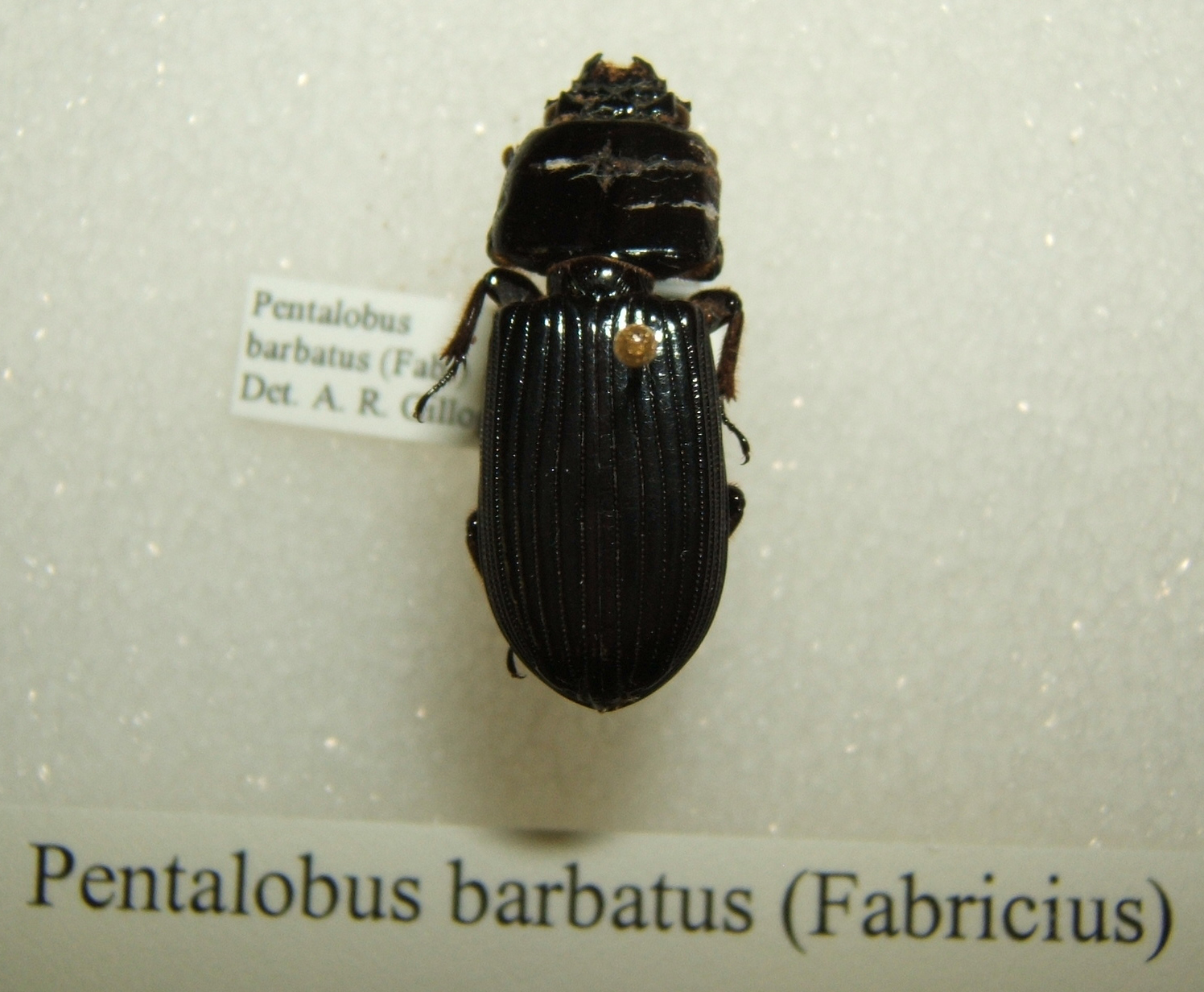 Pentalobus barbatus adult taken by Shawn Hanrahan at the Texas A&M University Insect Collection in College Station, Texas.